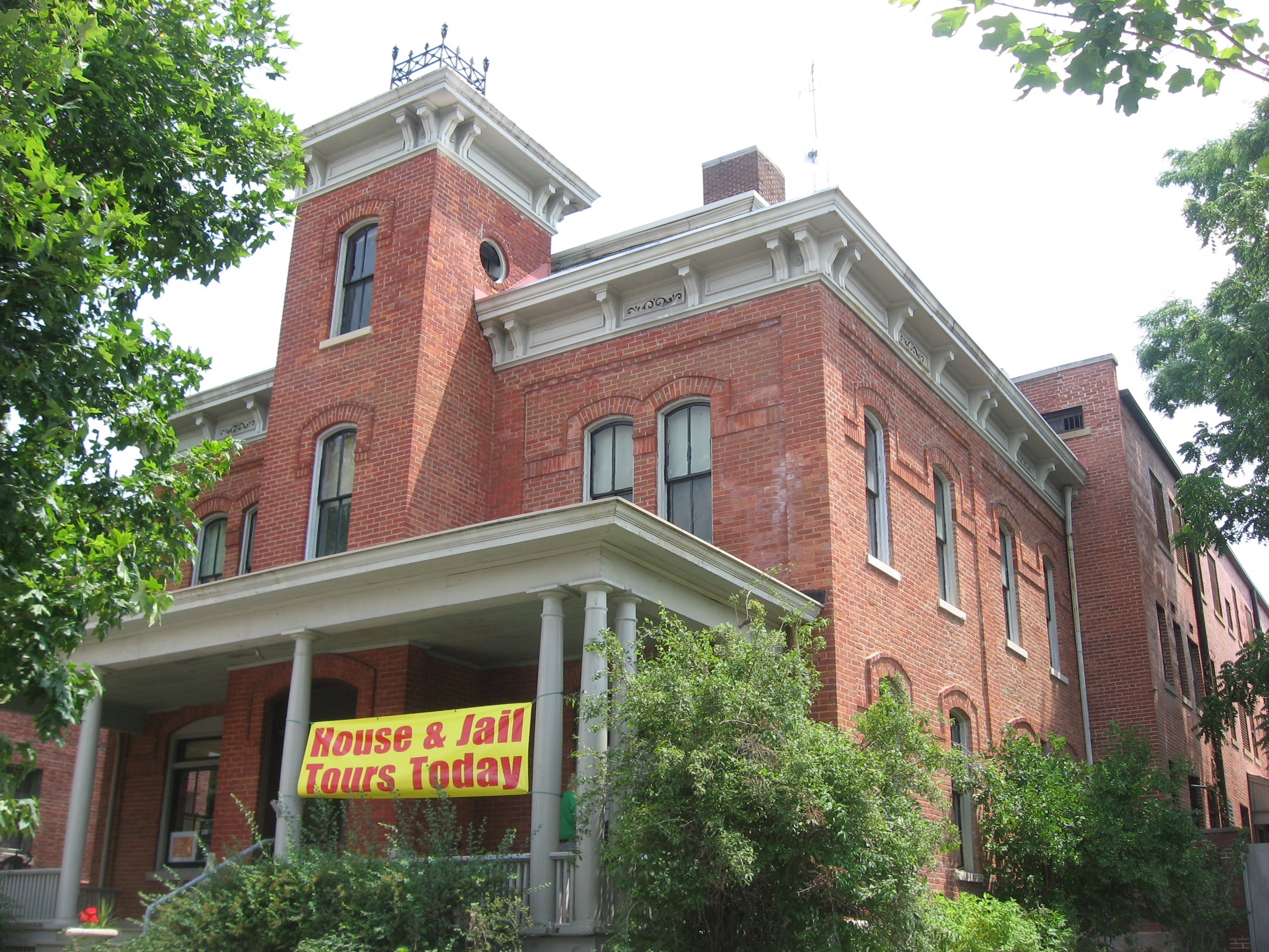 Front and southern side of the Lake County Sheriff's House and Jail, located at 232 S. Main Street in Crown Point, Indiana, United States. Built in 1882, it is listed on the National Register of Historic Places, and it is part of a Register-listed historic district, the Crown Point Courthouse Square Historic District.